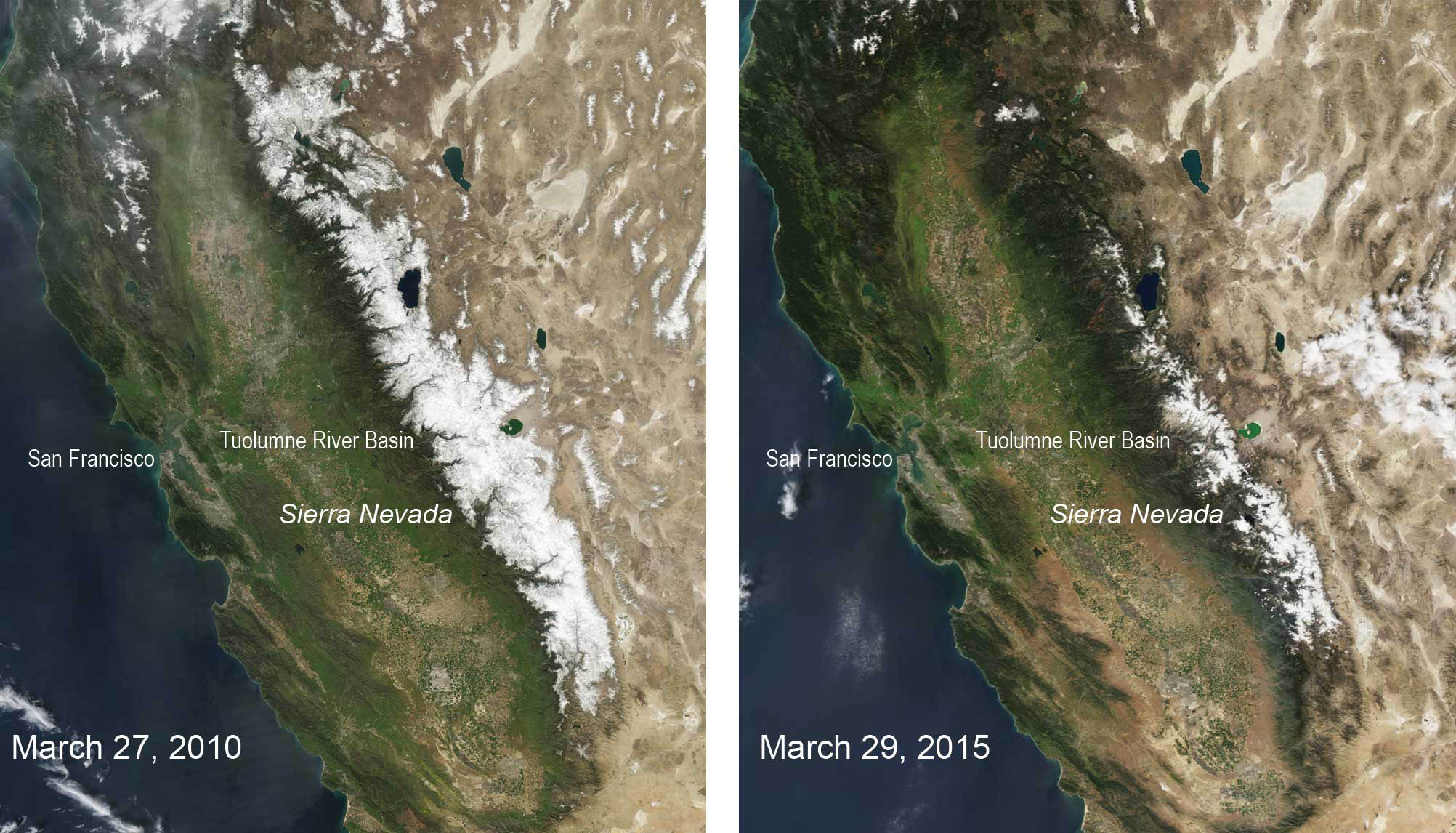 Comparison of snow cover March 27th 2010, which was the last year that had average snowfall in the region, and March 29th 2015 over Sierra Nevada Mountains.